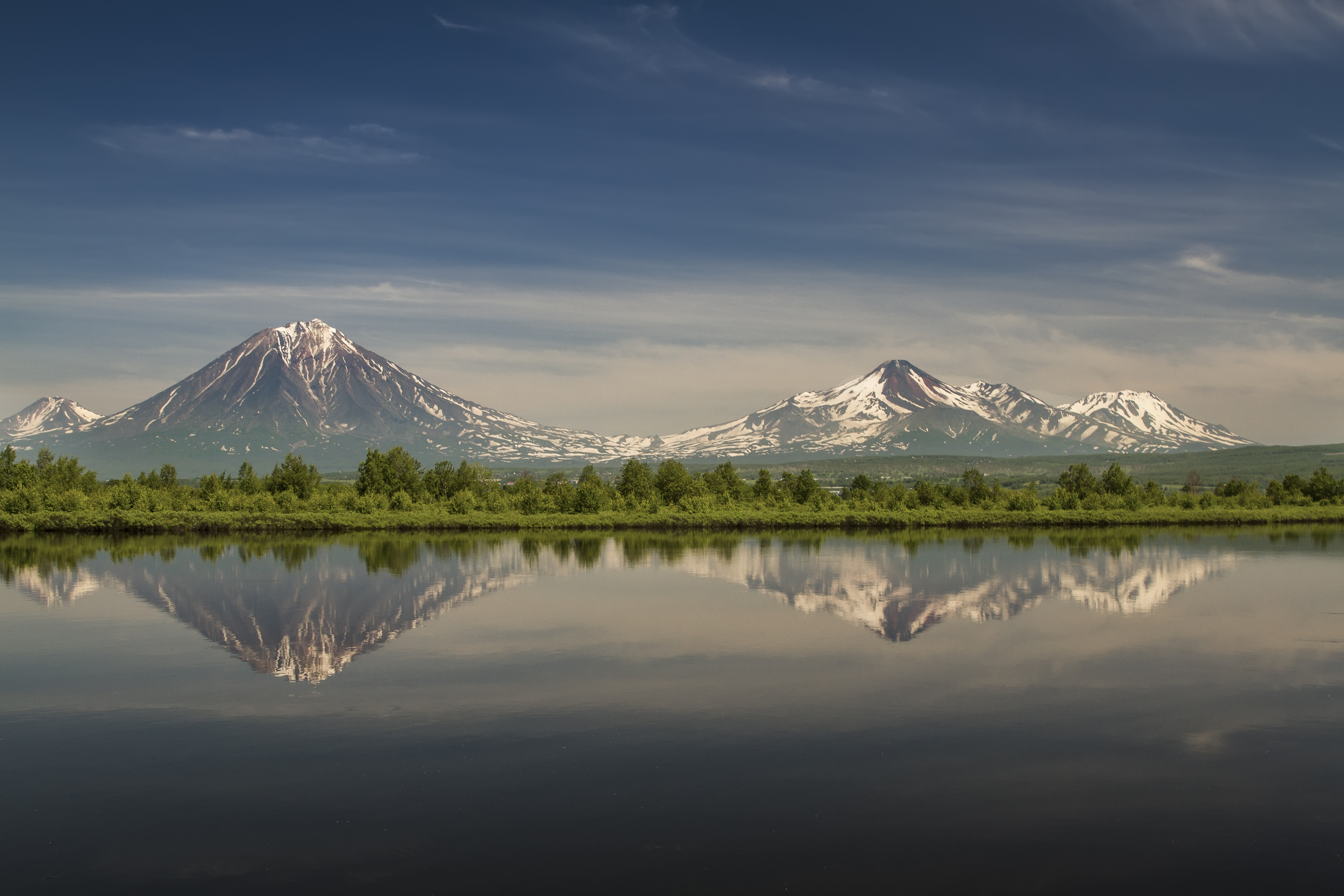 Three "home" volcanos of city Petropavlovsk-Kamchatsky: Koryaksky, Avachinsky and Kozelsky, Kamchatka Peninsula, Russia This image is related to the protected area of Russia number 4110063